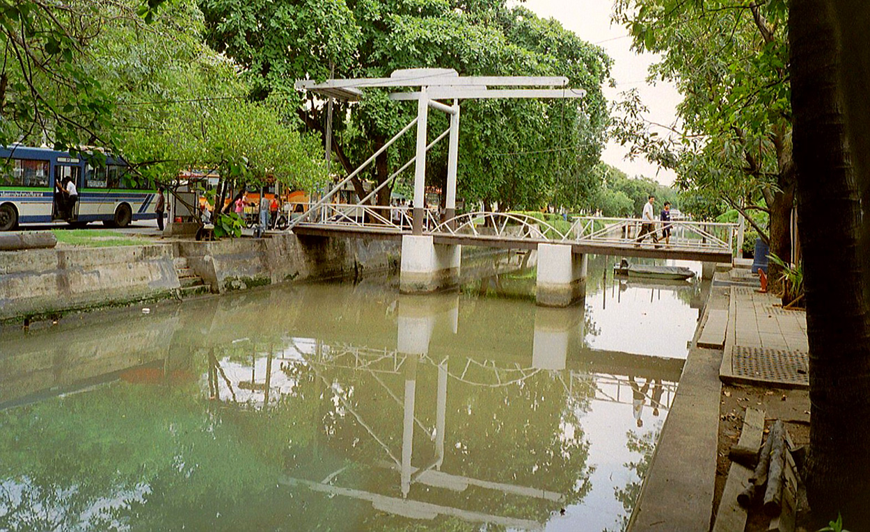 Saphan Hok ("draw bridge") over Khlong Lot, Bangkok, Thailand.